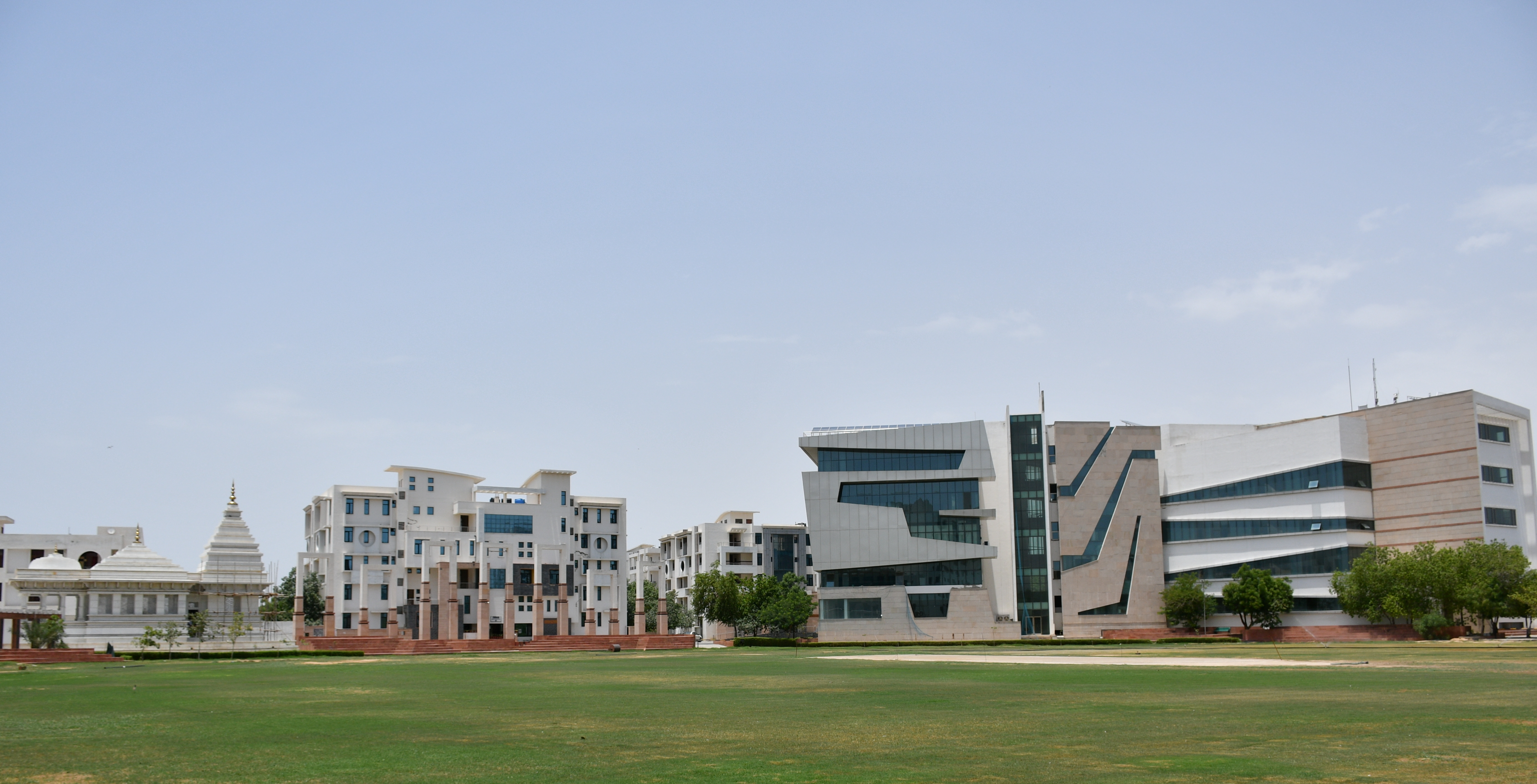 BuildingPic2SGVU